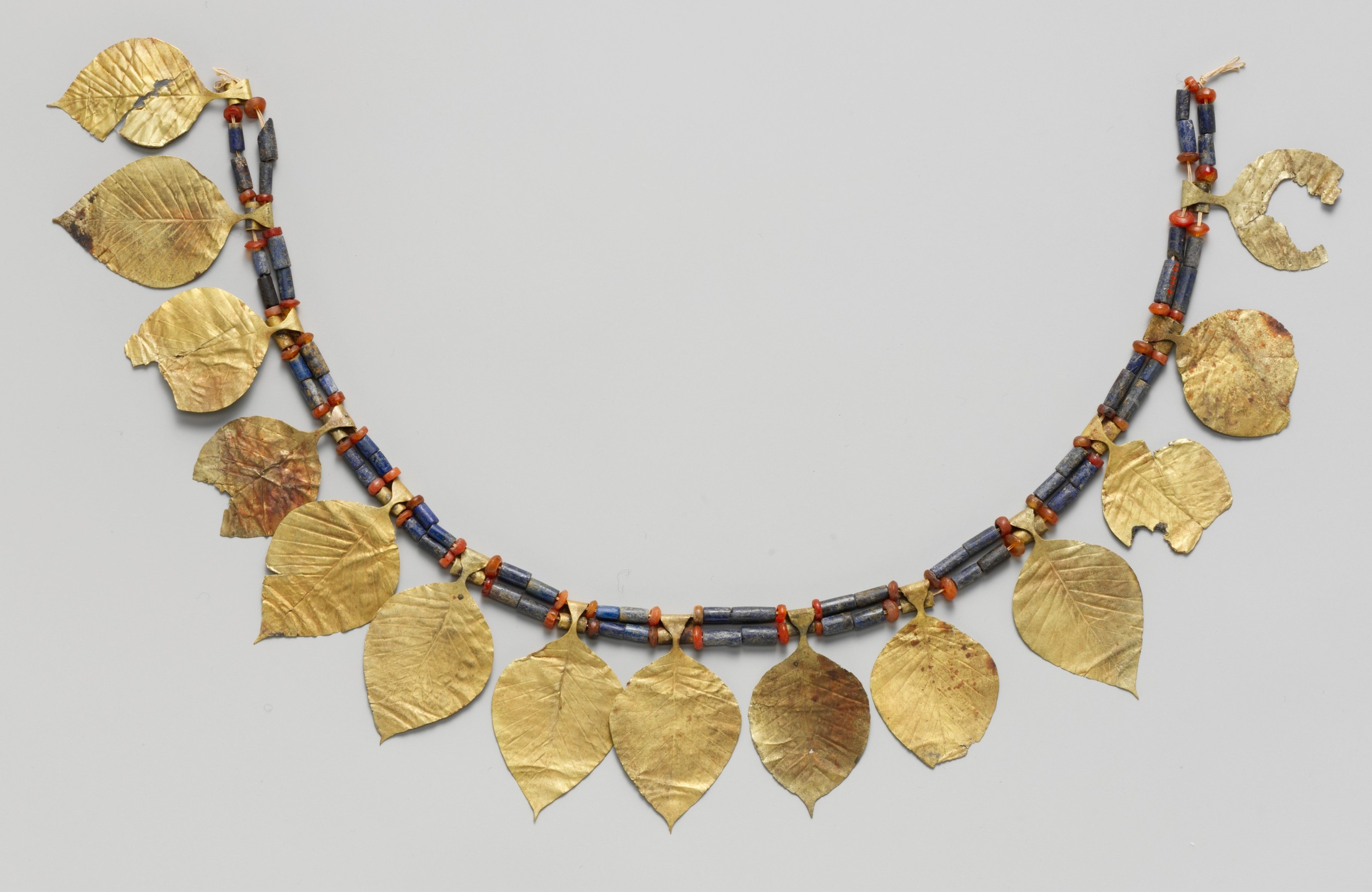 Sumerian; Headdress; Metalwork-Ornaments